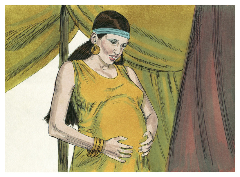 Biblical illustration of Book of Genesis Chapter 25